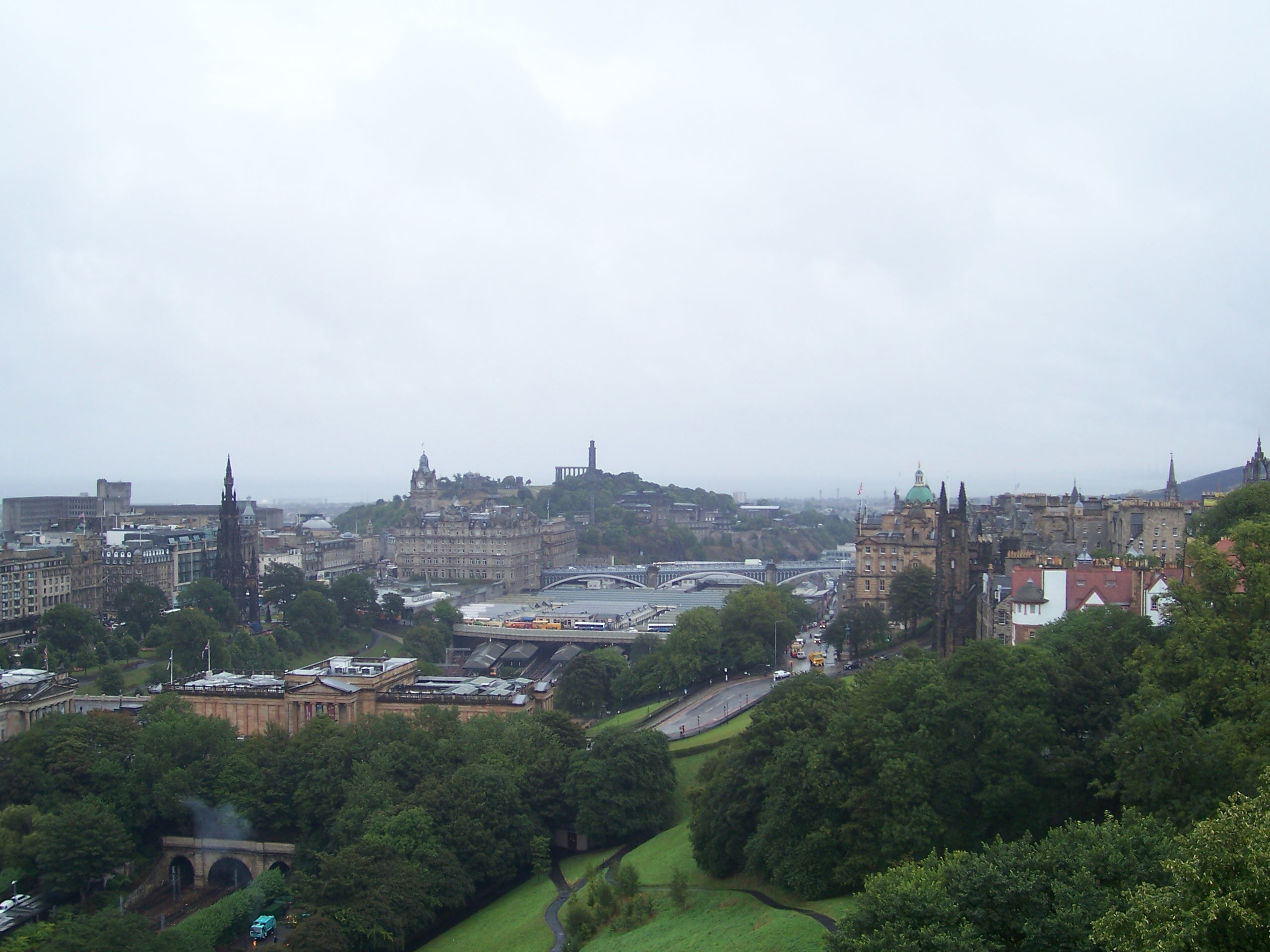 Edinburgh View From The Castle